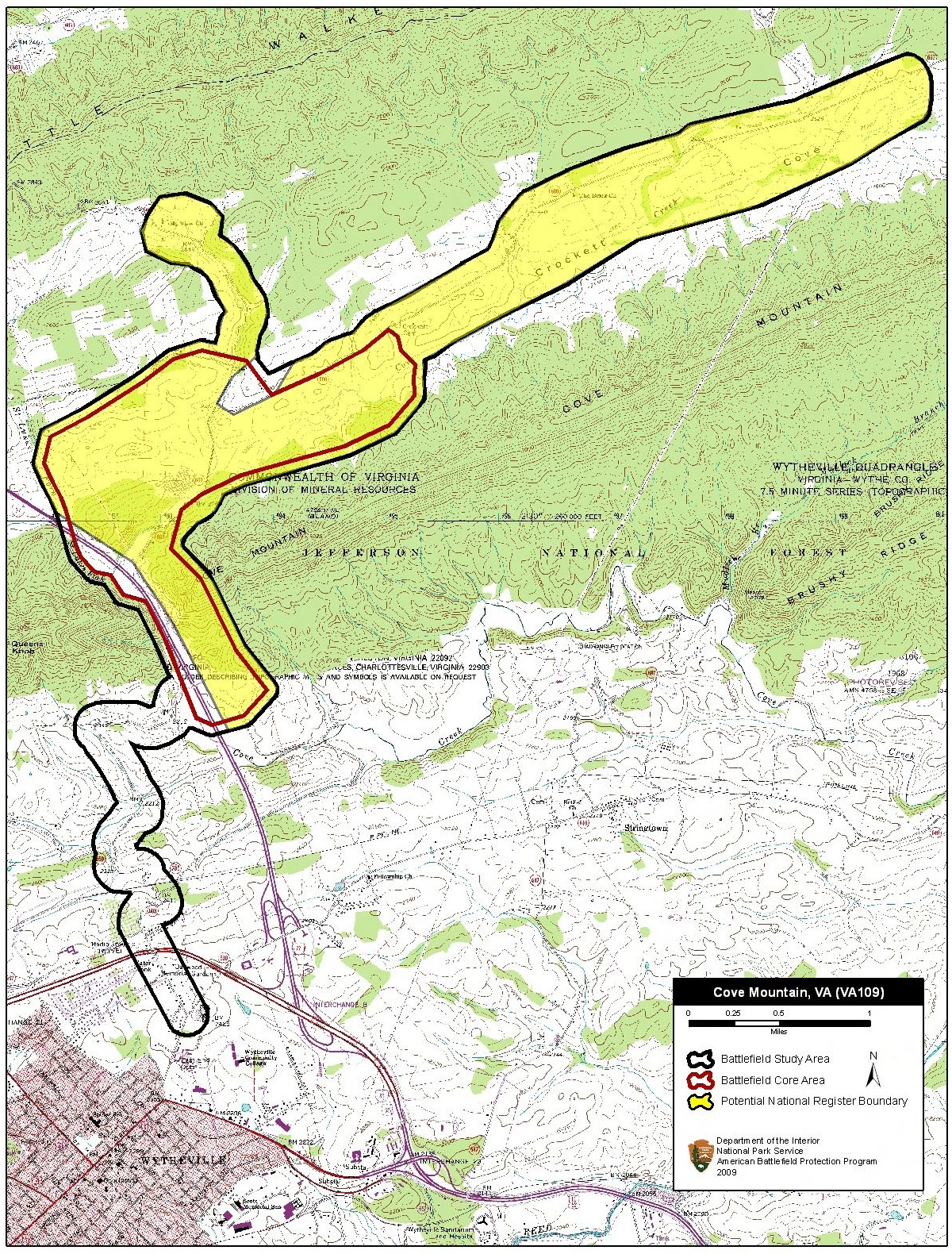 Map of battlefield core and study areas.